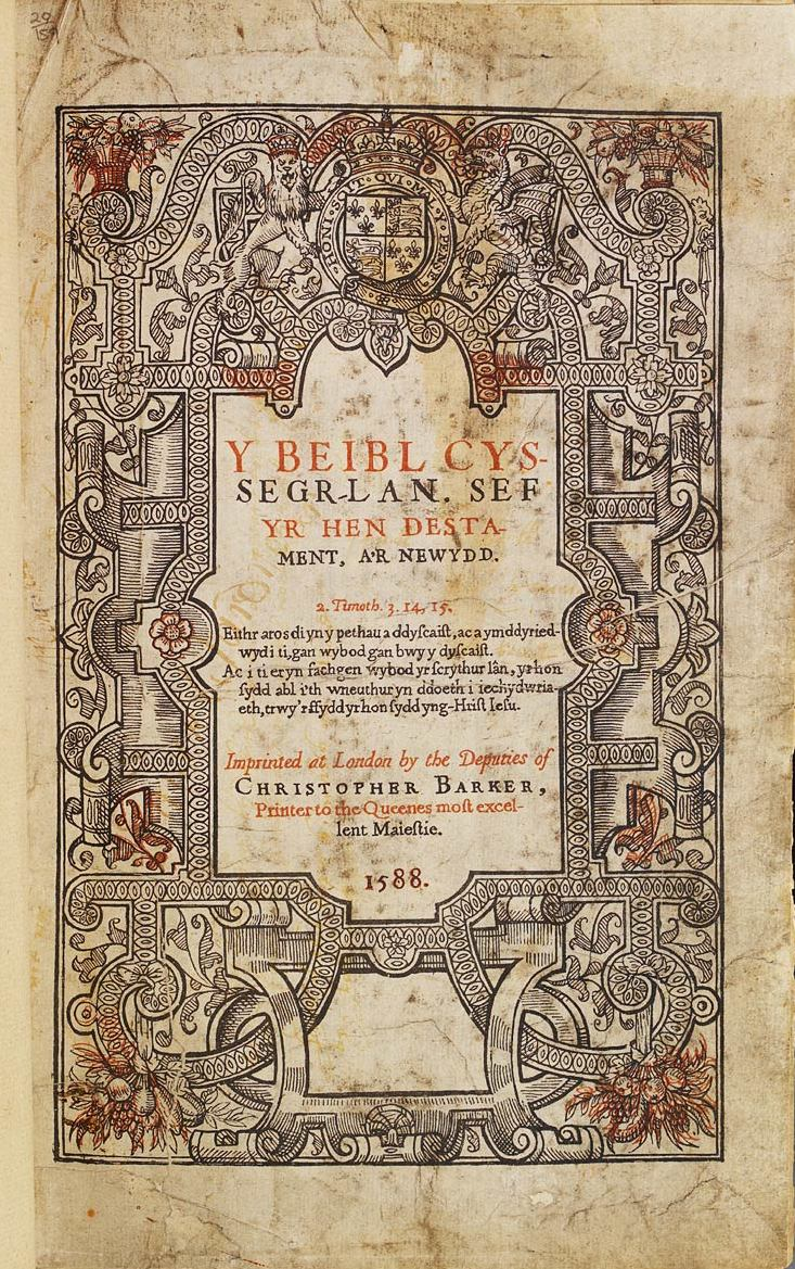 Title page from the First Welsh Bible. Translated into Welsh by William Morgan (1545-1604)